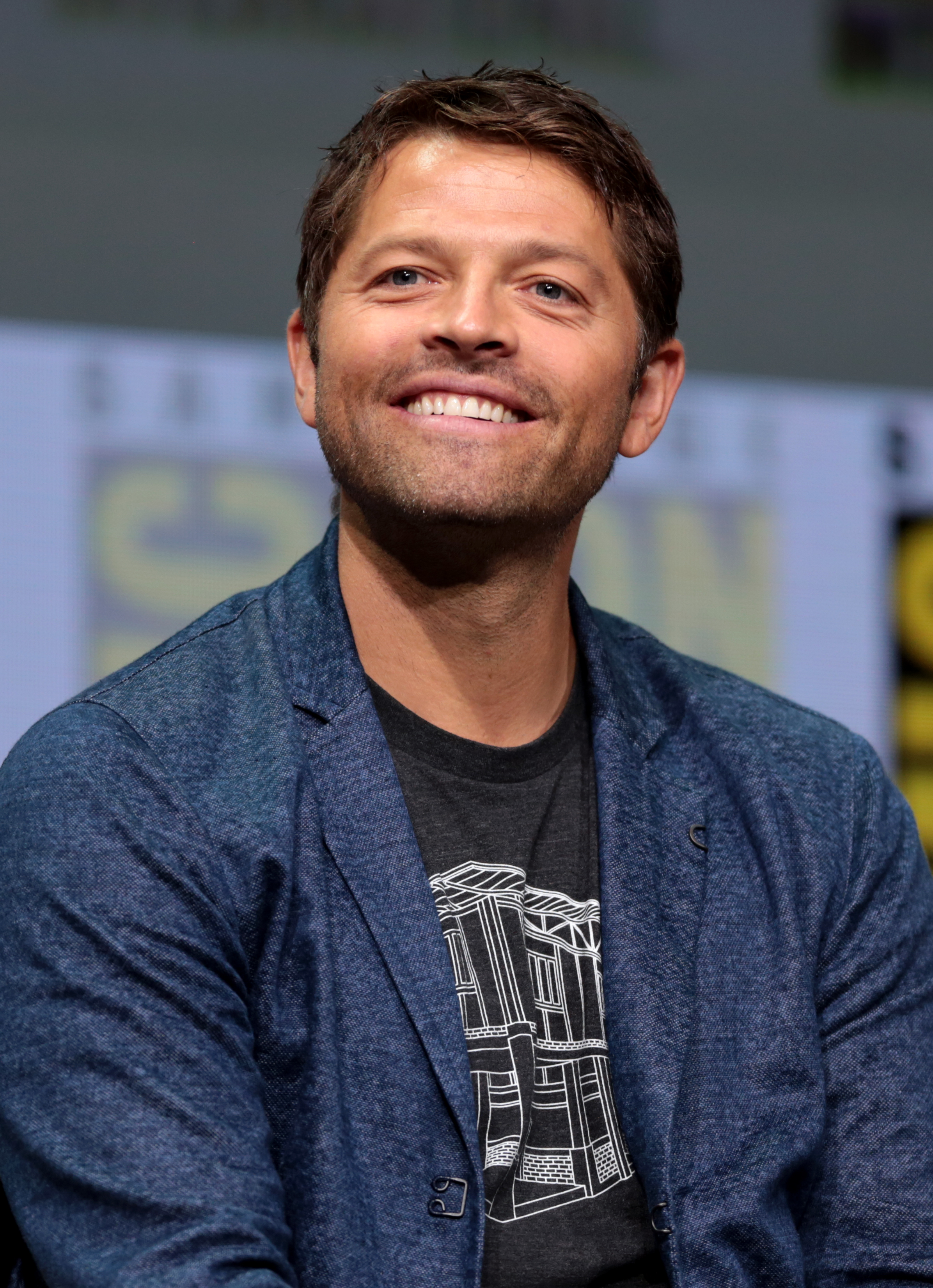 Misha Collins speaking at the 2017 San Diego Comic-Con International in San Diego, California.